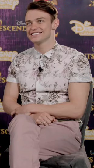 Thomas Doherty in 2017